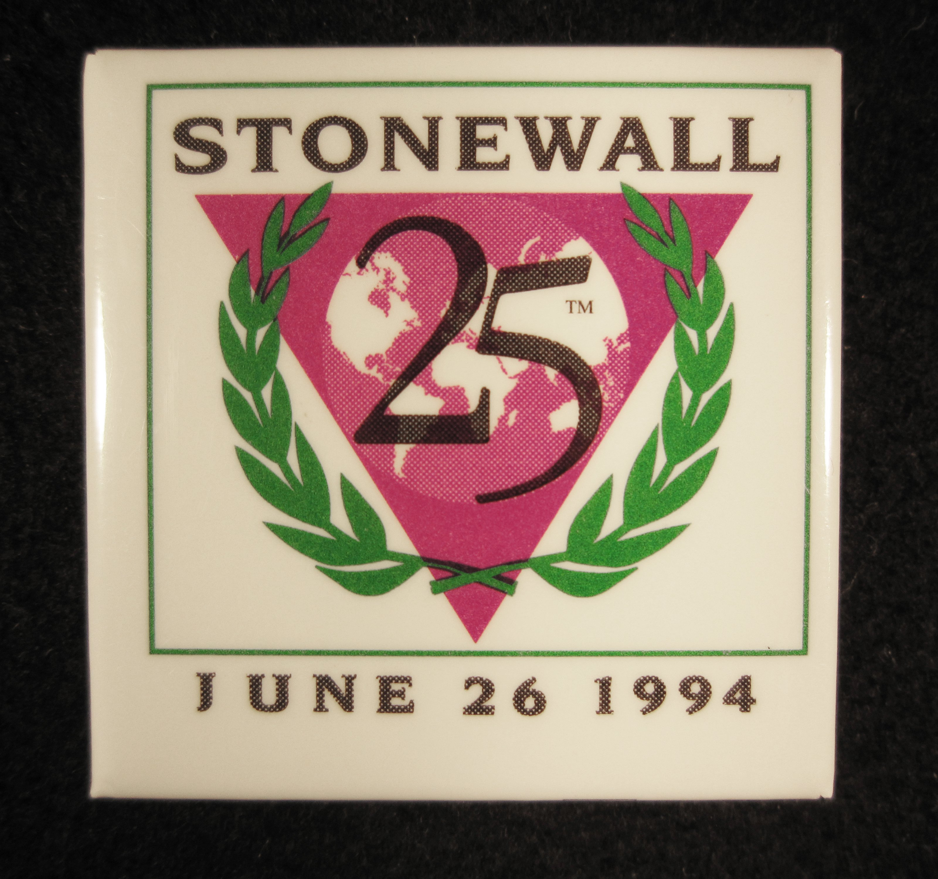 This button commemorates the twenty-fifth anniversary of the Stonewall riots, which took place in 1969. The riots erupted following a police raid targeting the gay community on June 28 at the Stonewall Inn in the Greenwich Village area of New York City. The riots marked the beginning of the GLBT (Gay, Lesbian, Bisexual, Transgender) movement for civil rights. The twenty-fifth anniversary of the riots was observed on June 26, 1994. The button features an inverted pink triangle with an image of the earth inside it and a pair of olive branches. Featured on the Minnesota Historical Society’s Collections Up Close blog